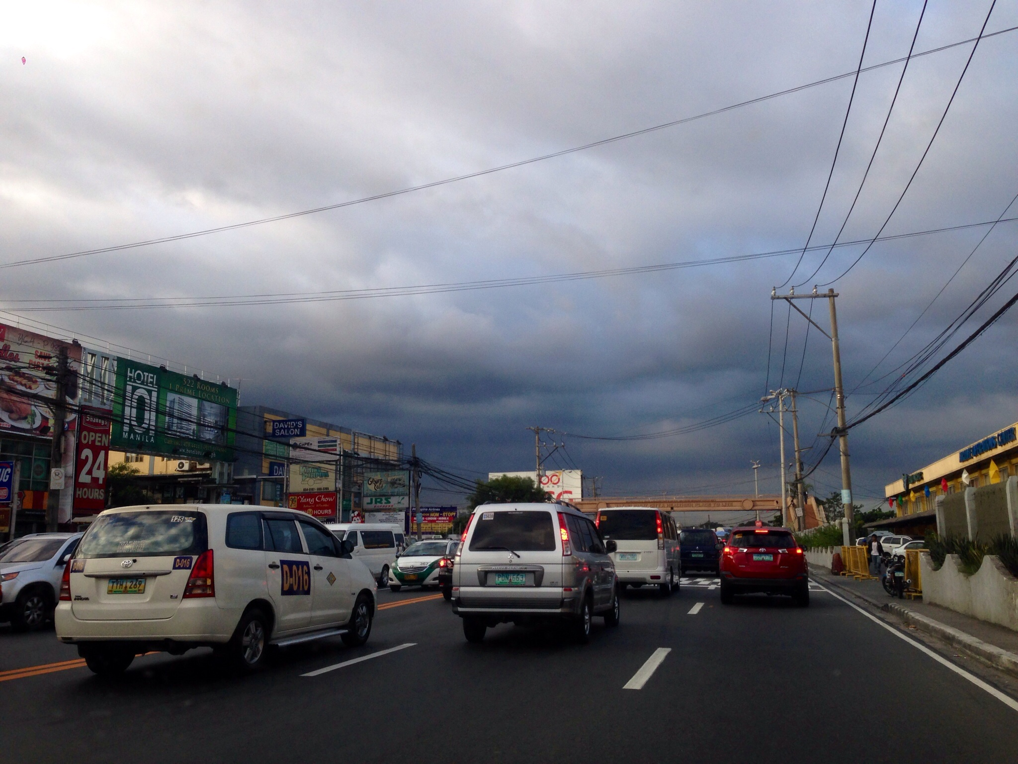 Domestic Road near Ninoy Aquino International Airport (NAIA) Terminal 4, Pasay, Manila